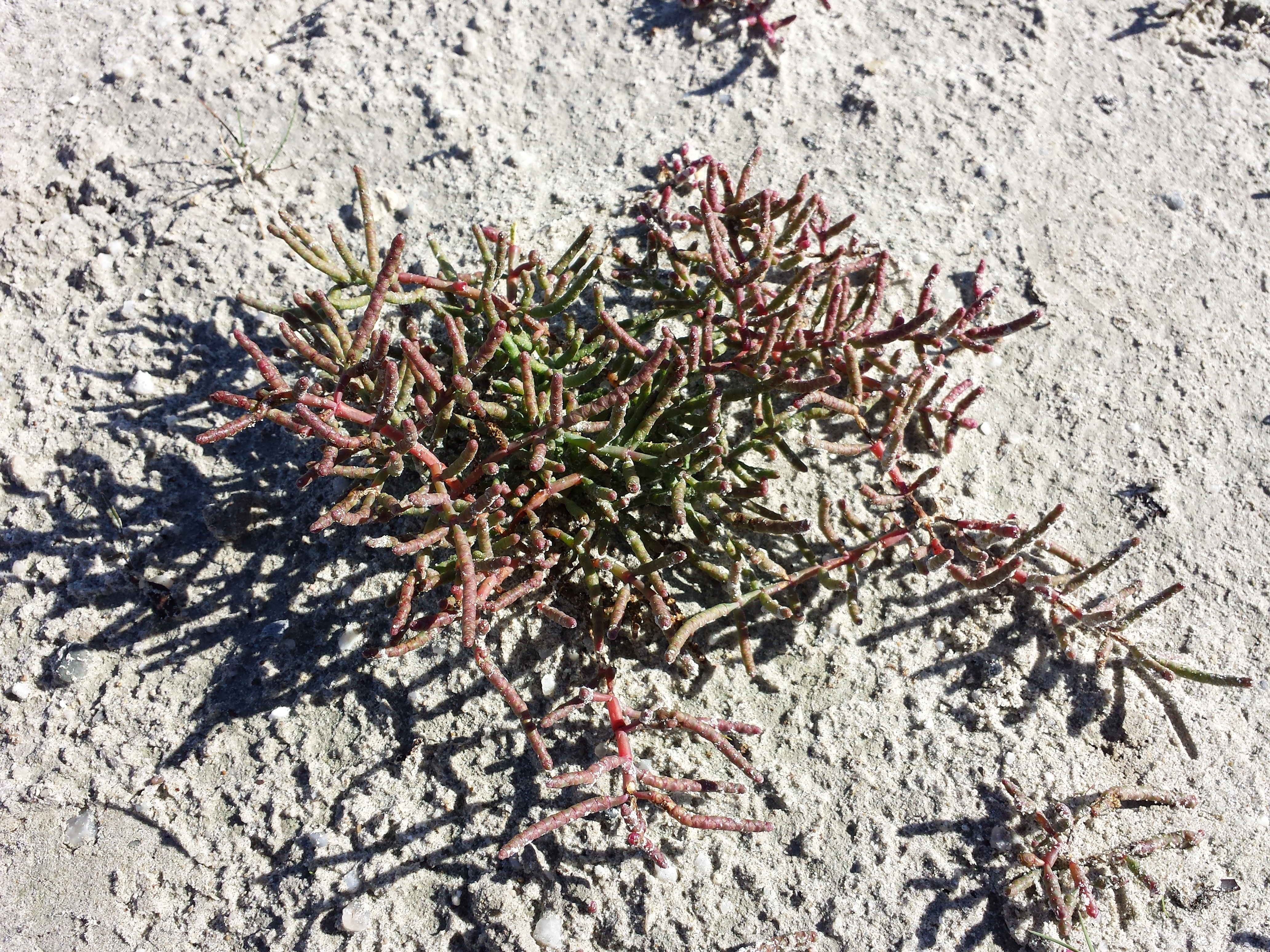 Habitus Taxon: Salicornia prostrata (sensu Fischer et al. EfÖLS 2008; det M. A. Fischer 2013-10-12) Location: small salt lake near Podersdorf, district Neusiedl am See, Burgenland, Austria - ca. 120 m a.s.l. Habitat: dried-out small salt lake